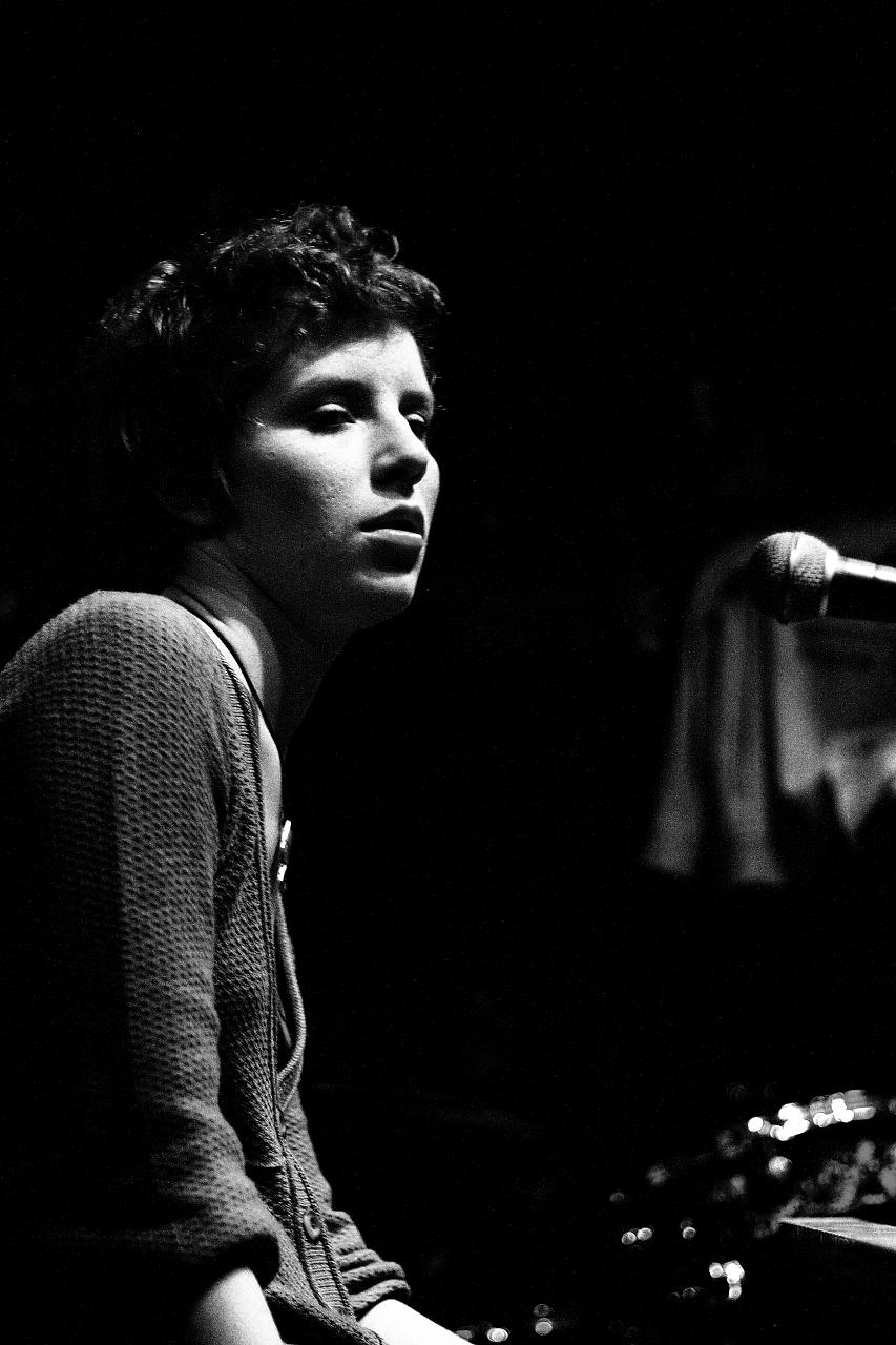 Alina Orlova during her gig